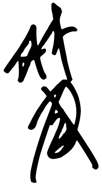 This is Lam Wai's signature.